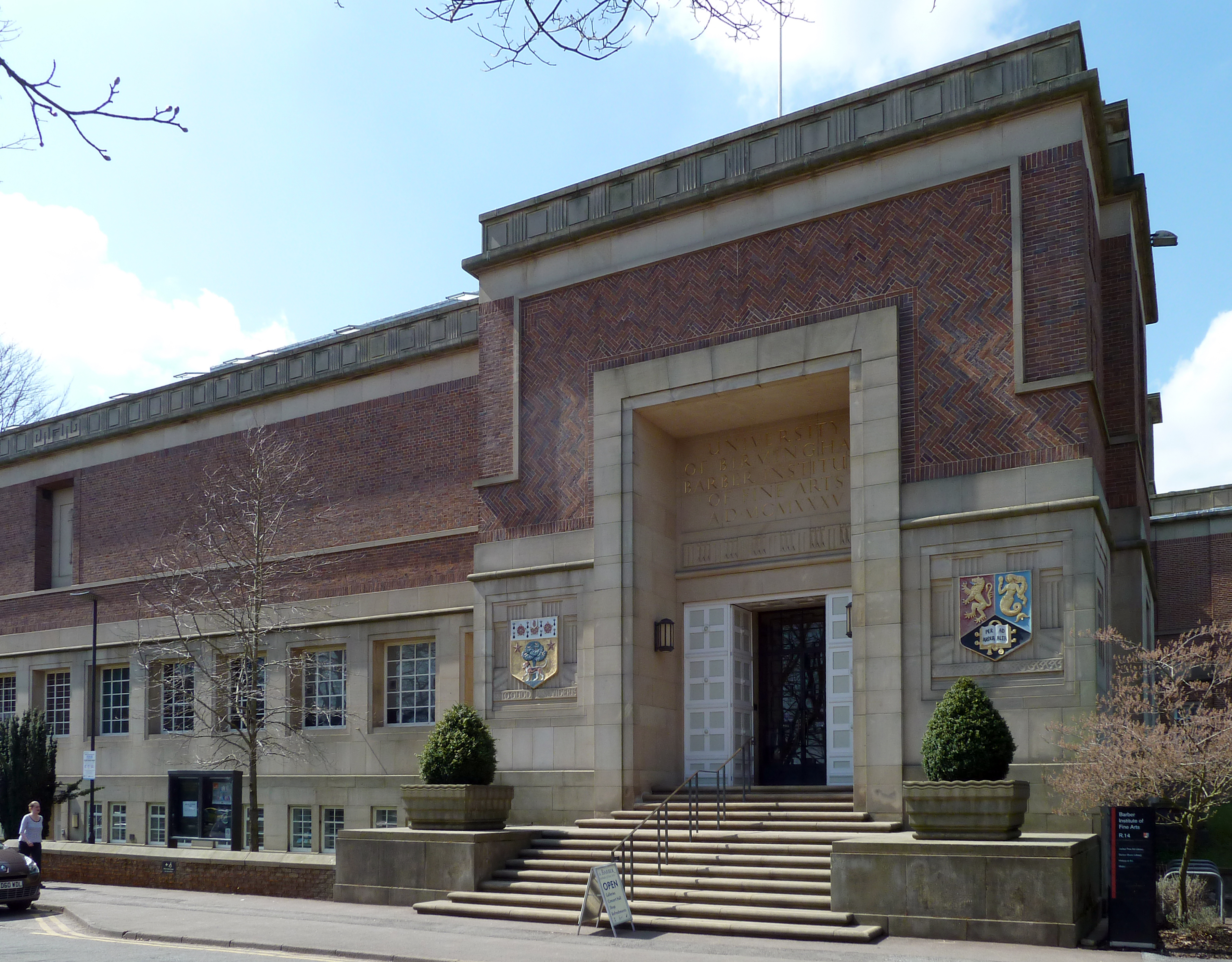 Barber Institute in Birmingham